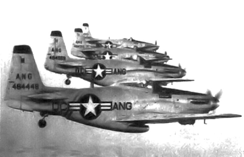 District of Columbia ANG 121st Fighter Squadron - North American P-51H-5-NA Mustang 44-64448